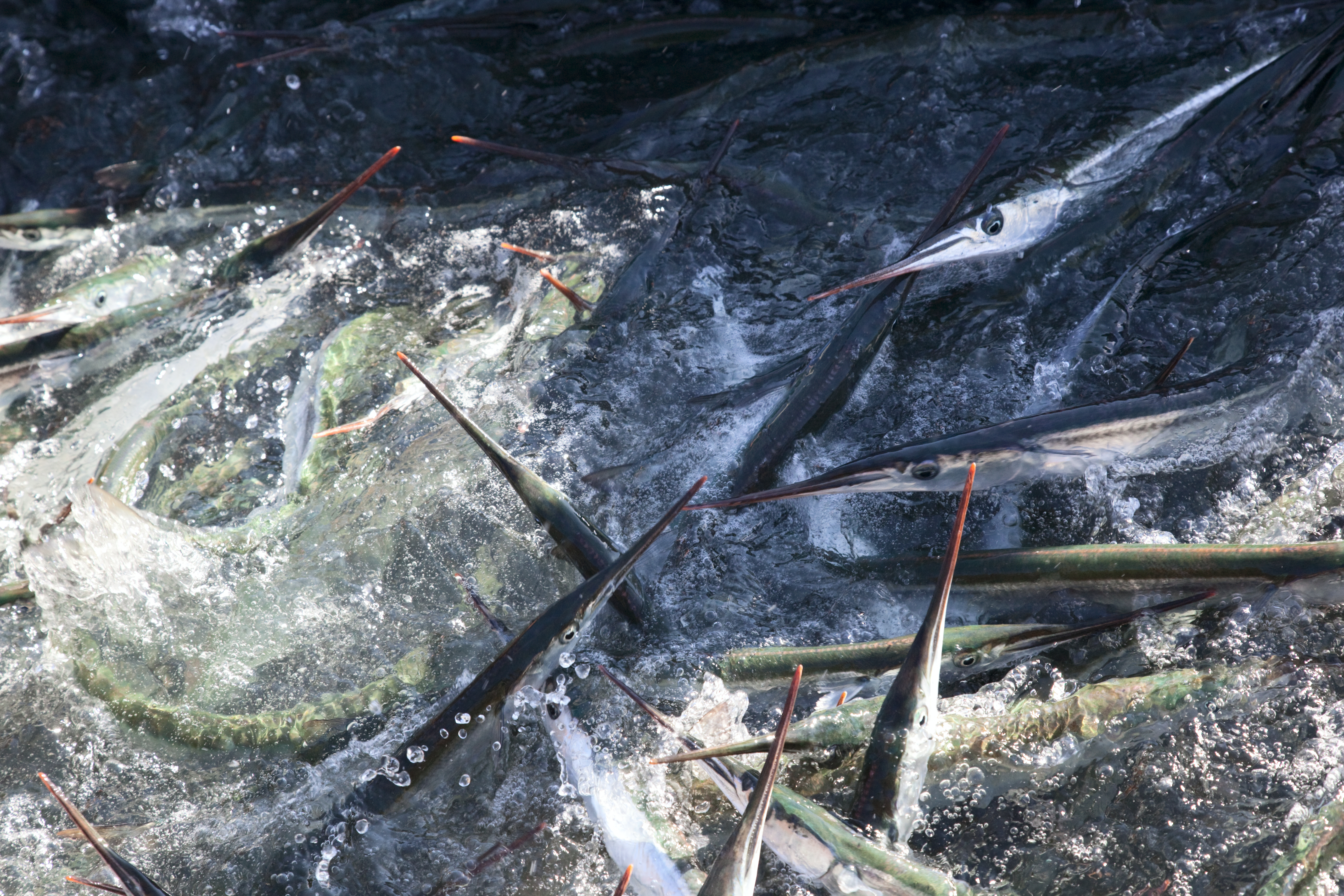 Belone belone in Rannaküla, Lääne County, Estonia.